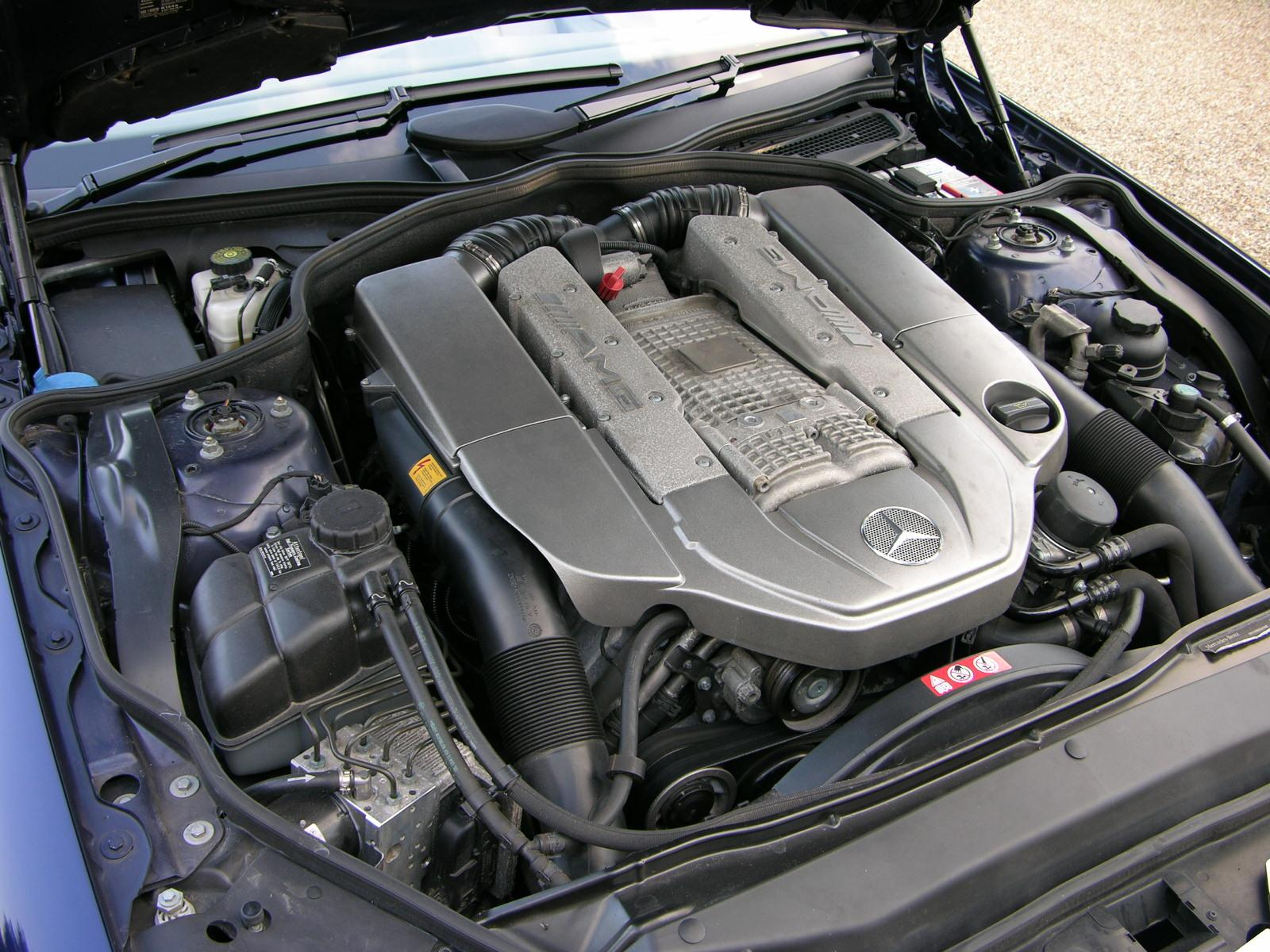 This car is for sale. Please contact us at or visit for more information.